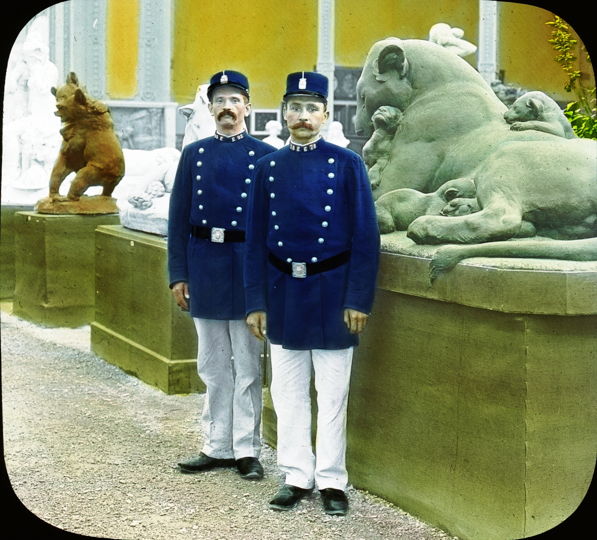 Paris Exposition: police, Paris, France, 1900. Paris Exposition. Police at the Fair. Brooklyn Museum Archives, Goodyear Archival Collection (S03_06_01_015 image 2036). It helps us to know how our visitors work with our images, so if you use it, we'd love to know how! Drop us a line by leaving a comment here or email our archivist